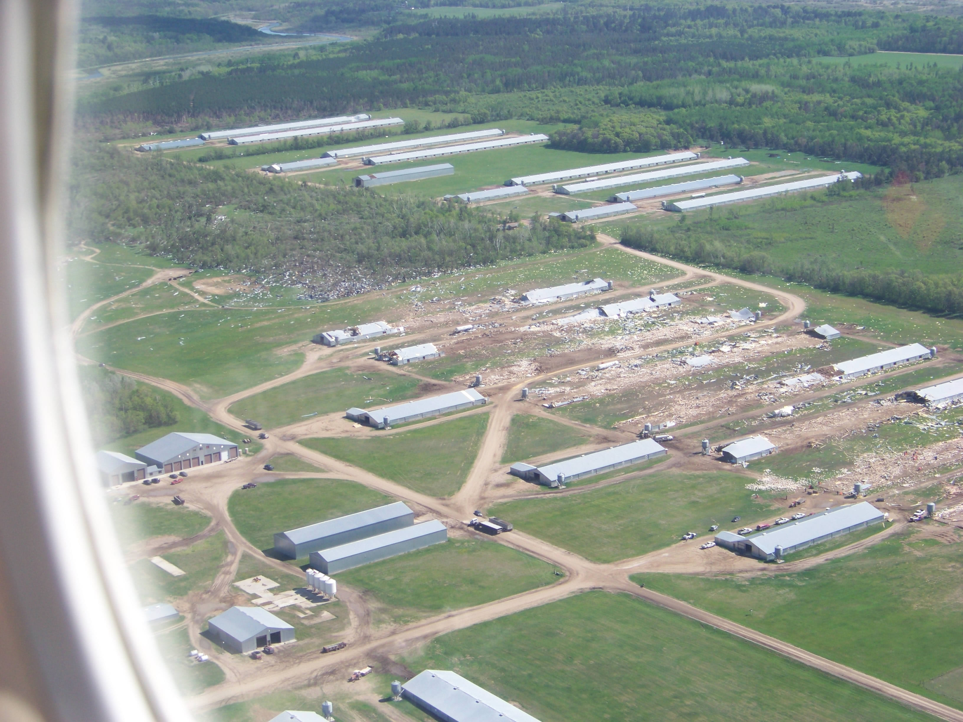 Damage to turkey barns from a June 6, 2008 tornado.